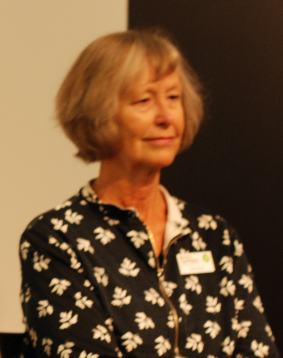 Swedish writer Anita Theorell at the Göteborg Book Fair 2010